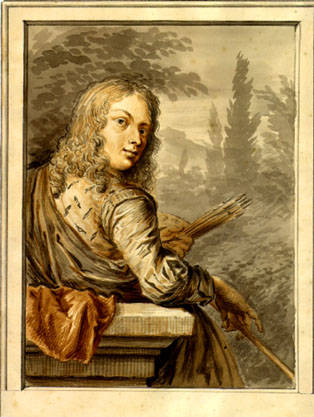 Portrait of Willem van Mieris, made by Jelgersma, Special Collections, Leiden University Library